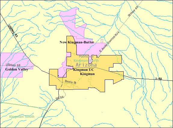 Map of Kingman and adjacent communities, in Mohave County, Arizona.